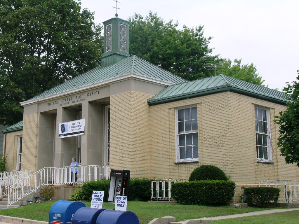 A front view of the post office in Oakland, MD.